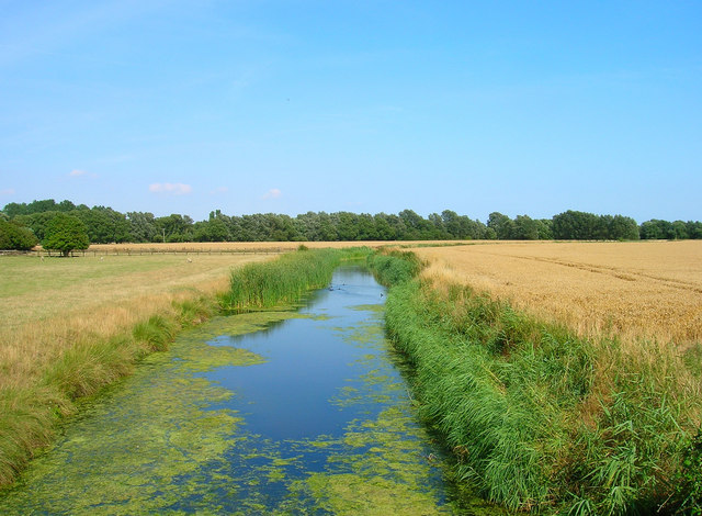 White Kemp Sewer. A major drainage ditch in the Walland Marshes flowing from Union Channel and the River Rother before joining up with Jury's Gut Sewer near Old Romney. This view was taken from Sconce Bridge.